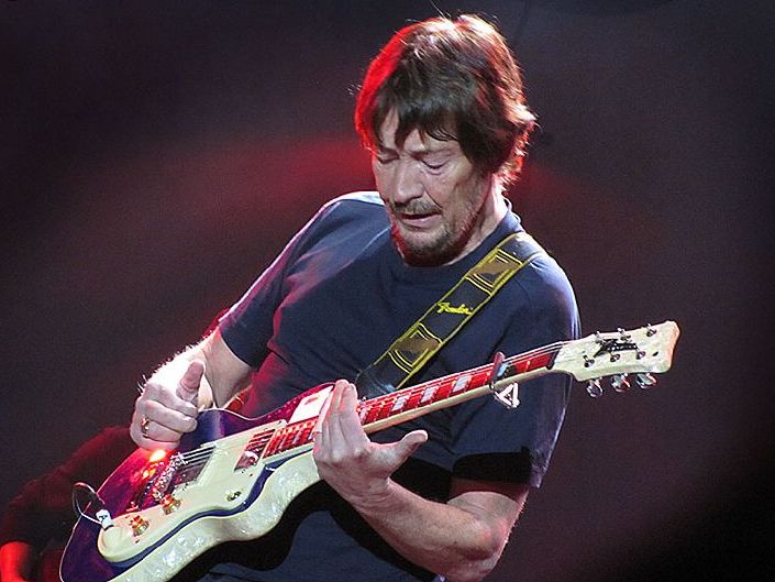 Chris Rea playing slide/bottleneck on his Italia Maranello Classic Blue Sparkle! at the Heineken Music Hall, Amsterdam, The Netherlands, March 5th 2010 during the 2010 Still So Far To Go Tour.